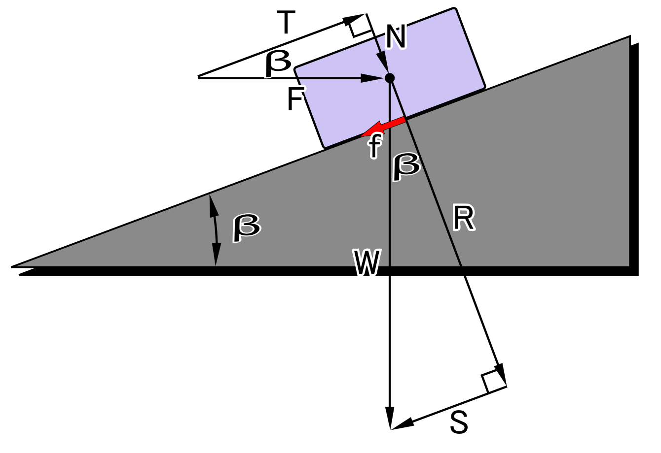 Screw (bolt) 03A-n